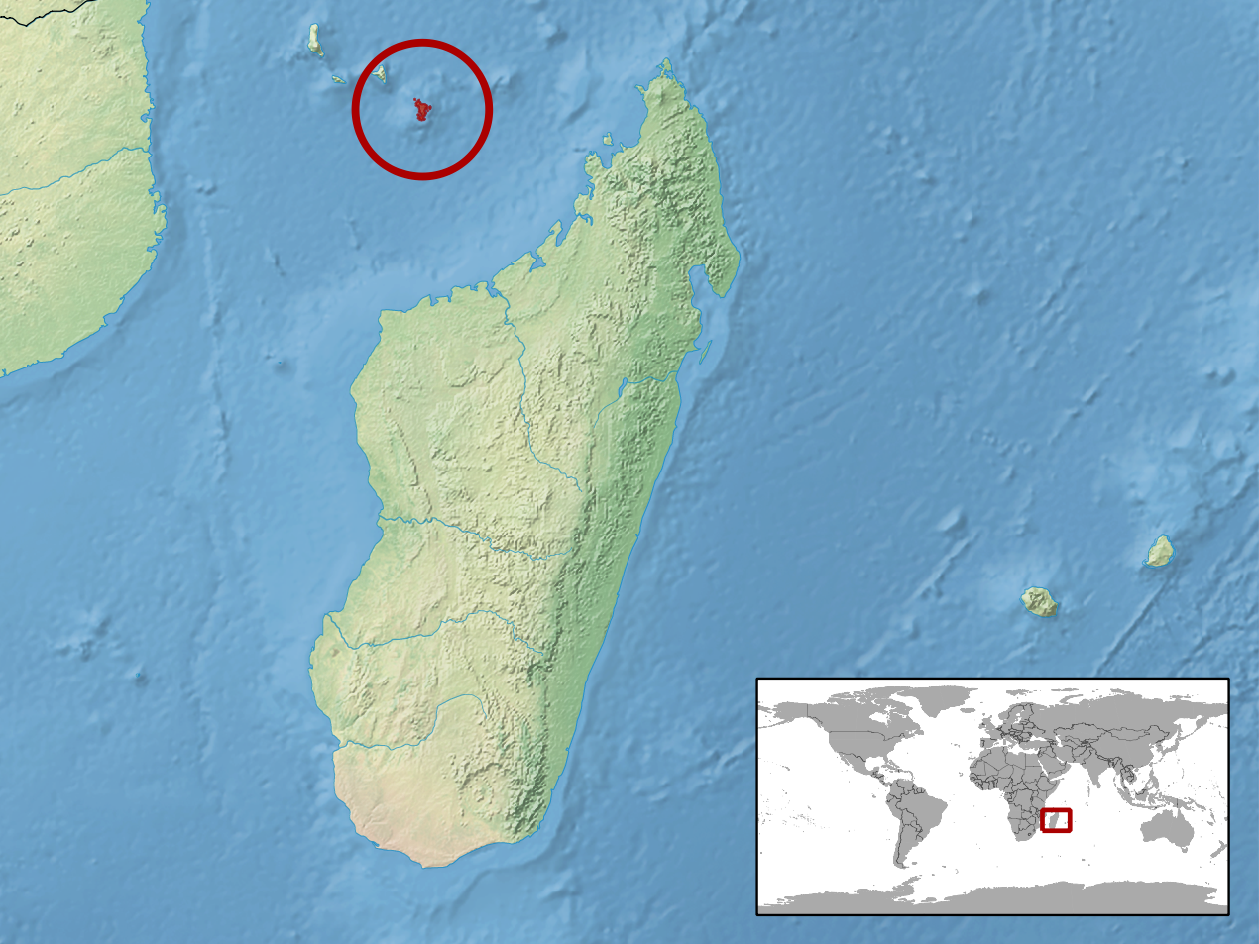 geographic distribution of Phelsuma robertmertensi (Native: Mayotte)